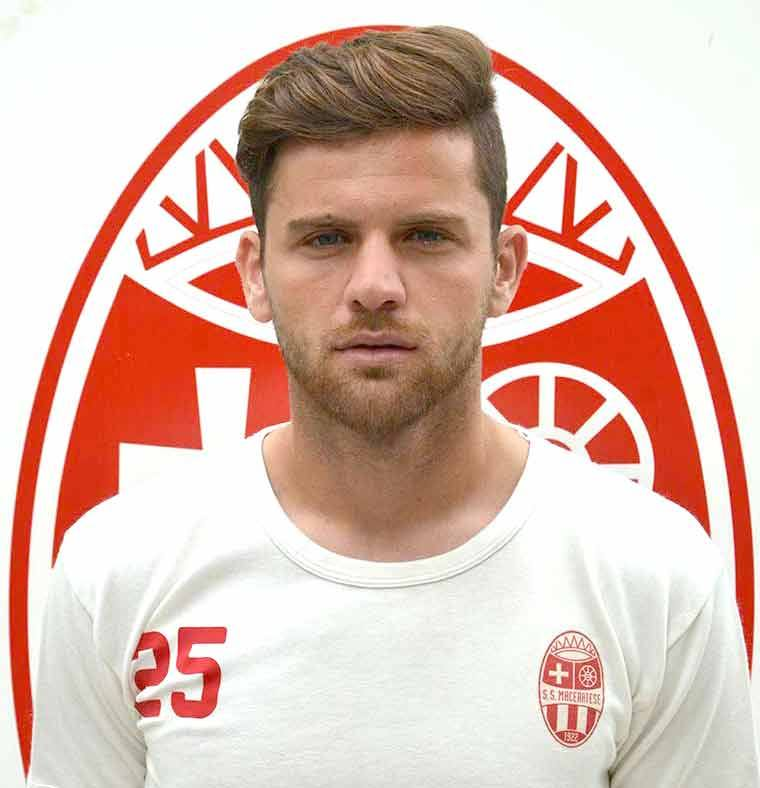 S.S Maceratese